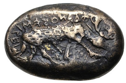 ELECTROTYPES, Ionia. Ephesus. Phanes. Circa 625-600 BC. “EL Stater” (22mm, 10.30 g total). British Museum electrotype by Robert Ready or his sons. Uniface of obverse: ΦANEOS (in retrograde archaic Greek), stag grazing right, its dappled coat indicated by indentations on the body / Uniface of reverse: Two incuse punches, each with raised intersecting lines.